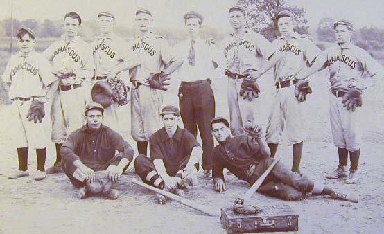 19th Century Damascus Baseball Team Photo